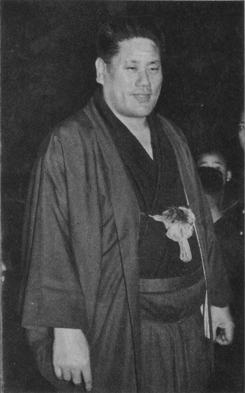 Takasago Uragorō V (Maedayama Eigorō). taken in march 1956.